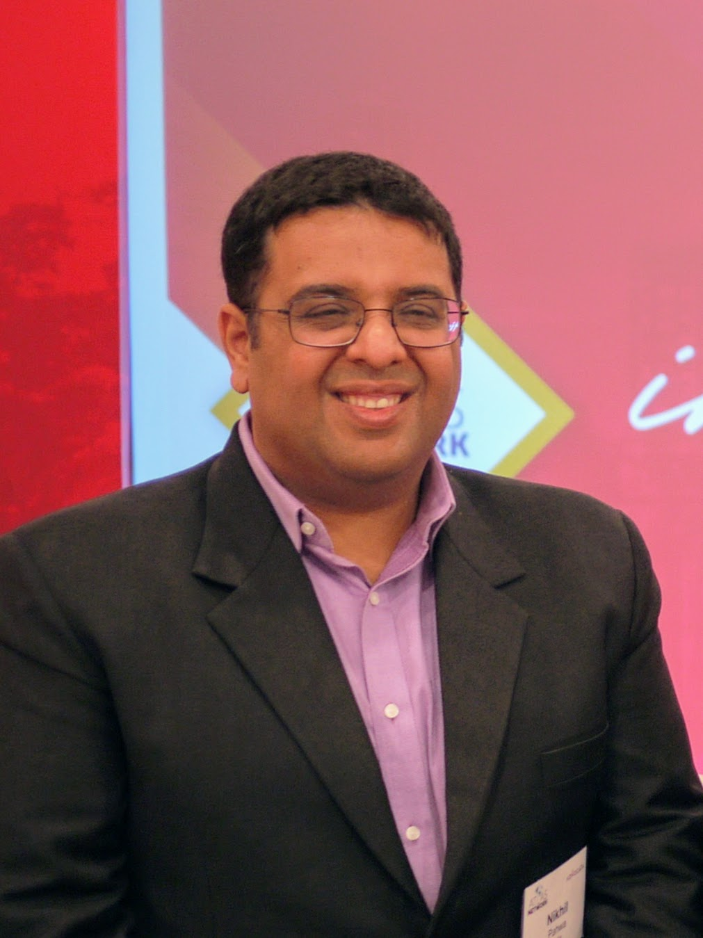 Nikhil Pahwa was a speaker at the Asia Liberty Forum 2019 in Colombo, Sri Lanka. Pahwa is the founder of Medianama.